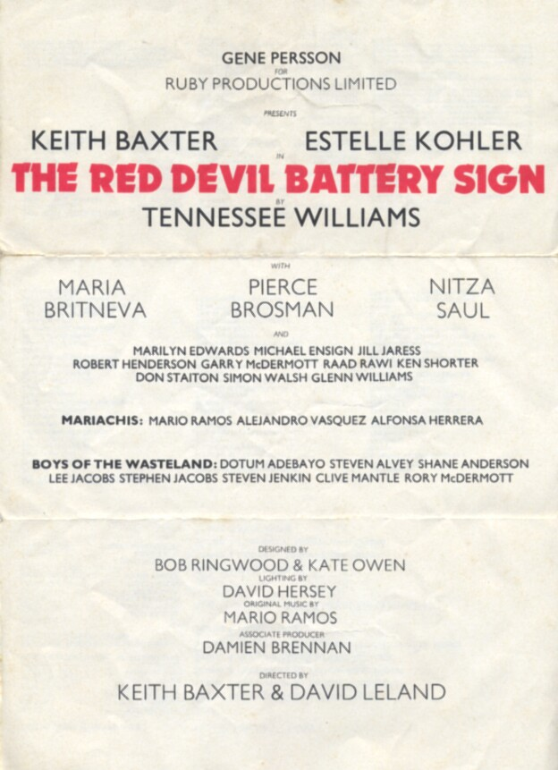 Scan of original Red Devil Battery Sign poster